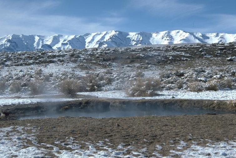 Mickey Hot Springs with Steens Mountain in the background, Harney County, Oregon, 2008.